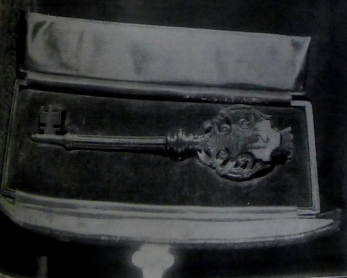 Silver-gilt key presented to developer Thomas Dence (1840-1918) who paid for the 1903-1904 erection of the East Cliff Pavilion, which was to become the first phase of the King's Hall, Herne Bay, Kent, England. The key was presented by A.S. Ingleton at the opening of the Pavilion in 1904.